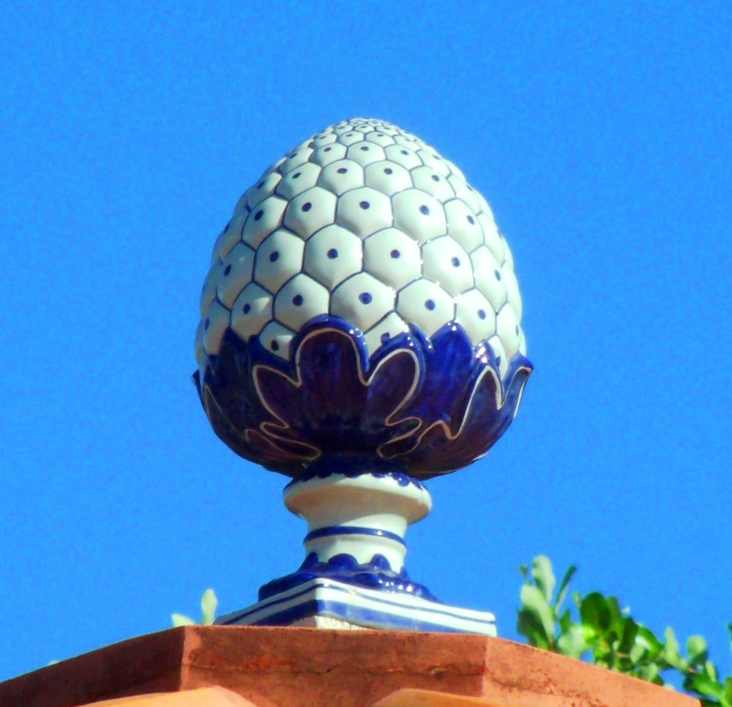 Architecture part of the Palace of Carnaúbas decoration in Campo Maior, Piaui.